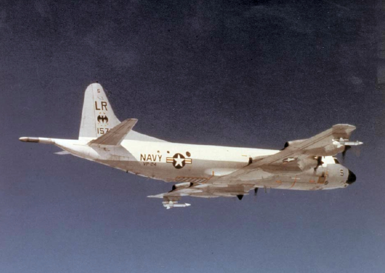 A U.S. Navy Lockheed P-3C Orion from Patrol Squadron VP-24 Batmen equipped with two AGM-12A Bullpup missiles.